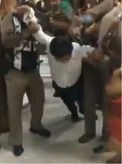 Police officers dragging Anon Nampha when he was arrested on 7 August 2020.